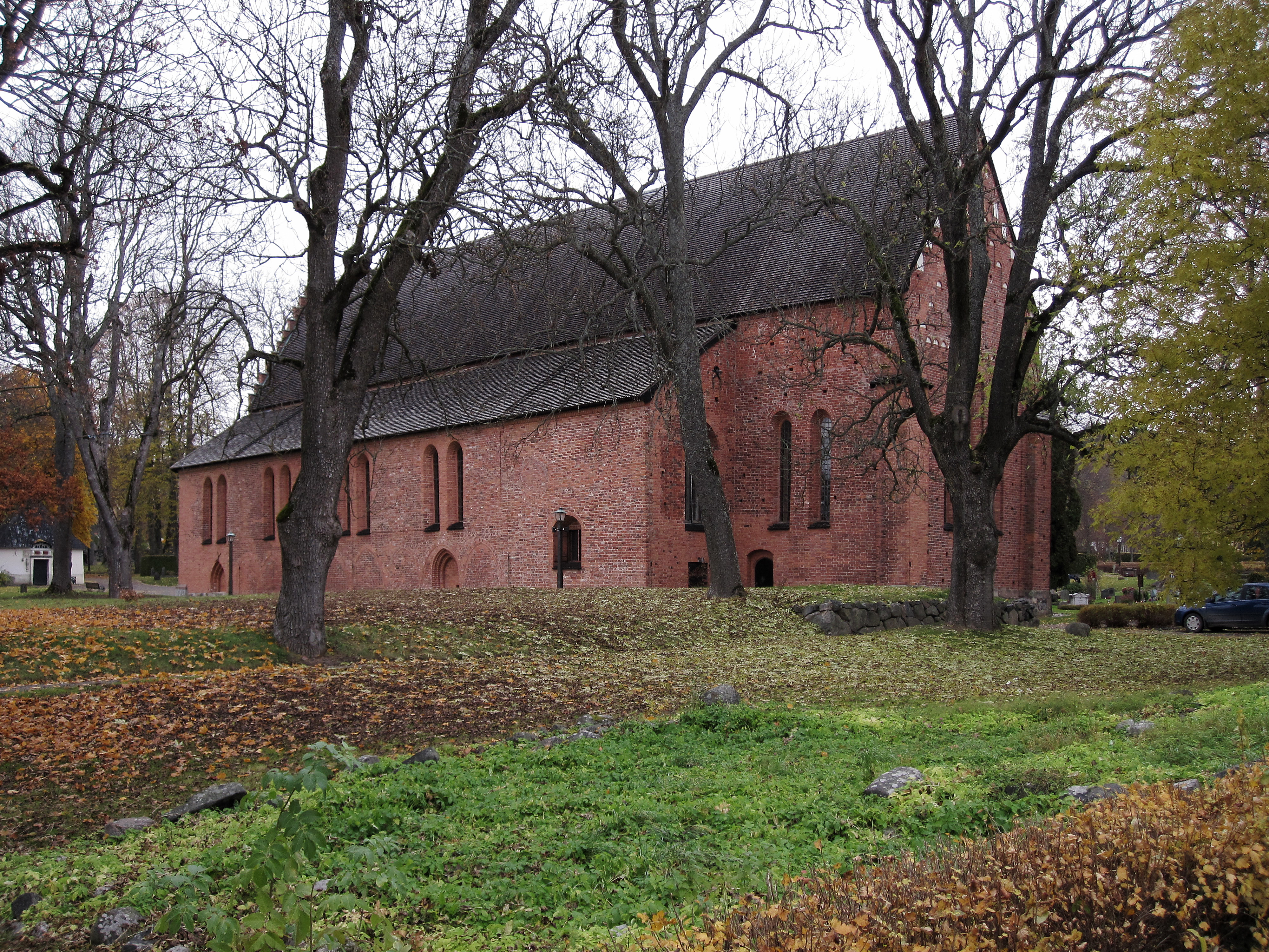 Church of Saint Mary, Sigtuna, Sweden.